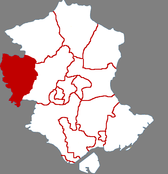 Location of Yutian county in Tangshan City, China